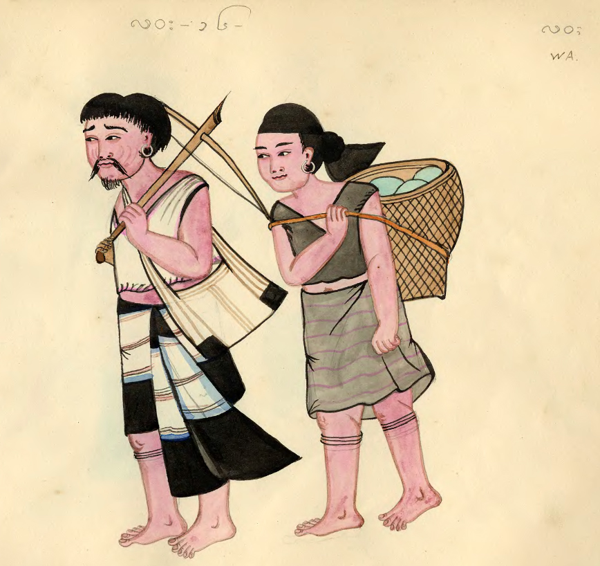 Wa tribe from a Burmese handpainted color manuscript